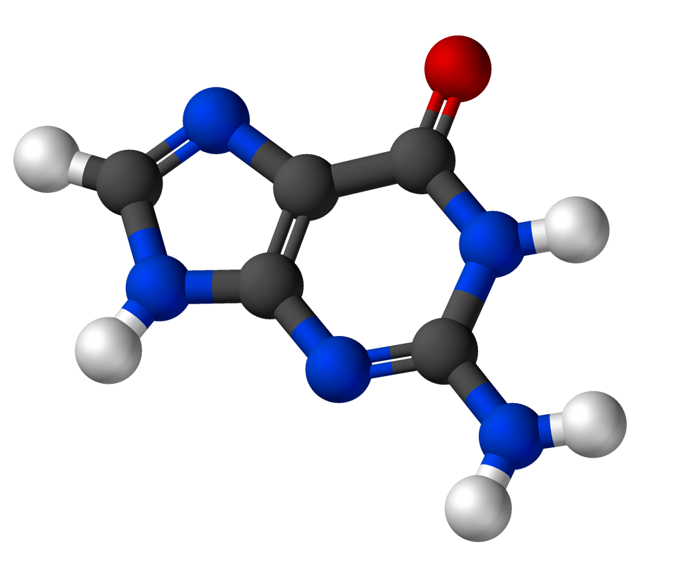 3D balls - Guanine Color code: Carbon, C: black Hydrogen, H: white Oxygen, O: red Nitrogen, N: blue